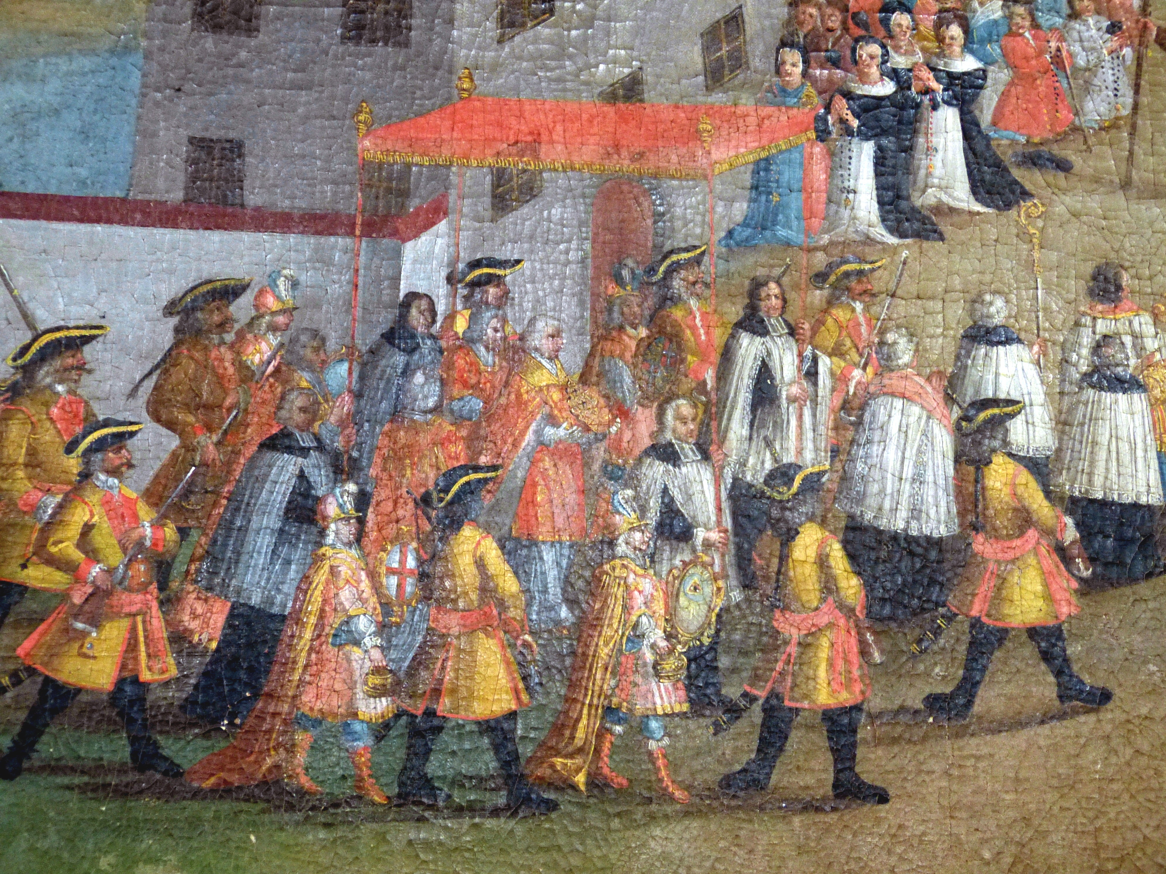 Reichenau ( Baden-Württemberg ). Mittelzell village: Minster - Painting showing the bringing back of the relics of the Holy Blood to Reichenau monastery by Johann Franz Schenk von Stauffenberg, bishop of Constance, on mai 26th 1738 - detail: Bishop with relics under baldachin.